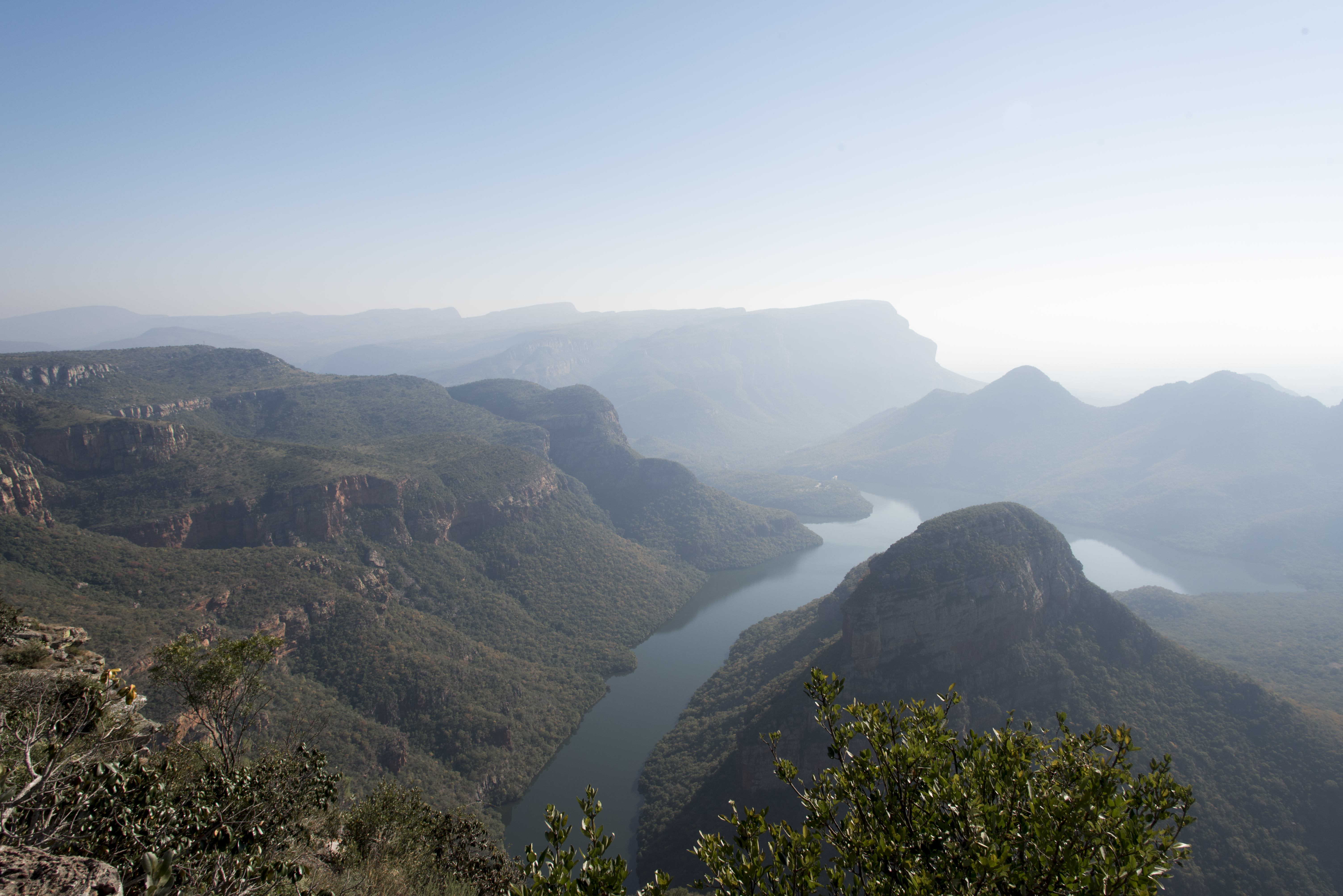 Blyde River Canyon, Sydafrika